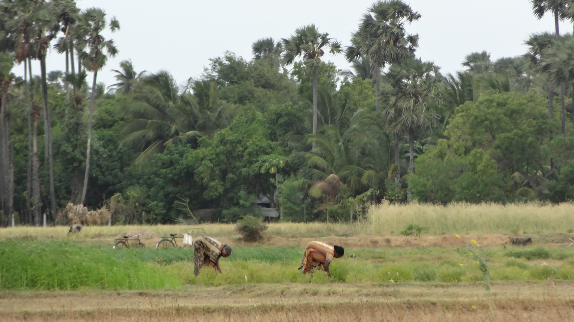 village site farming